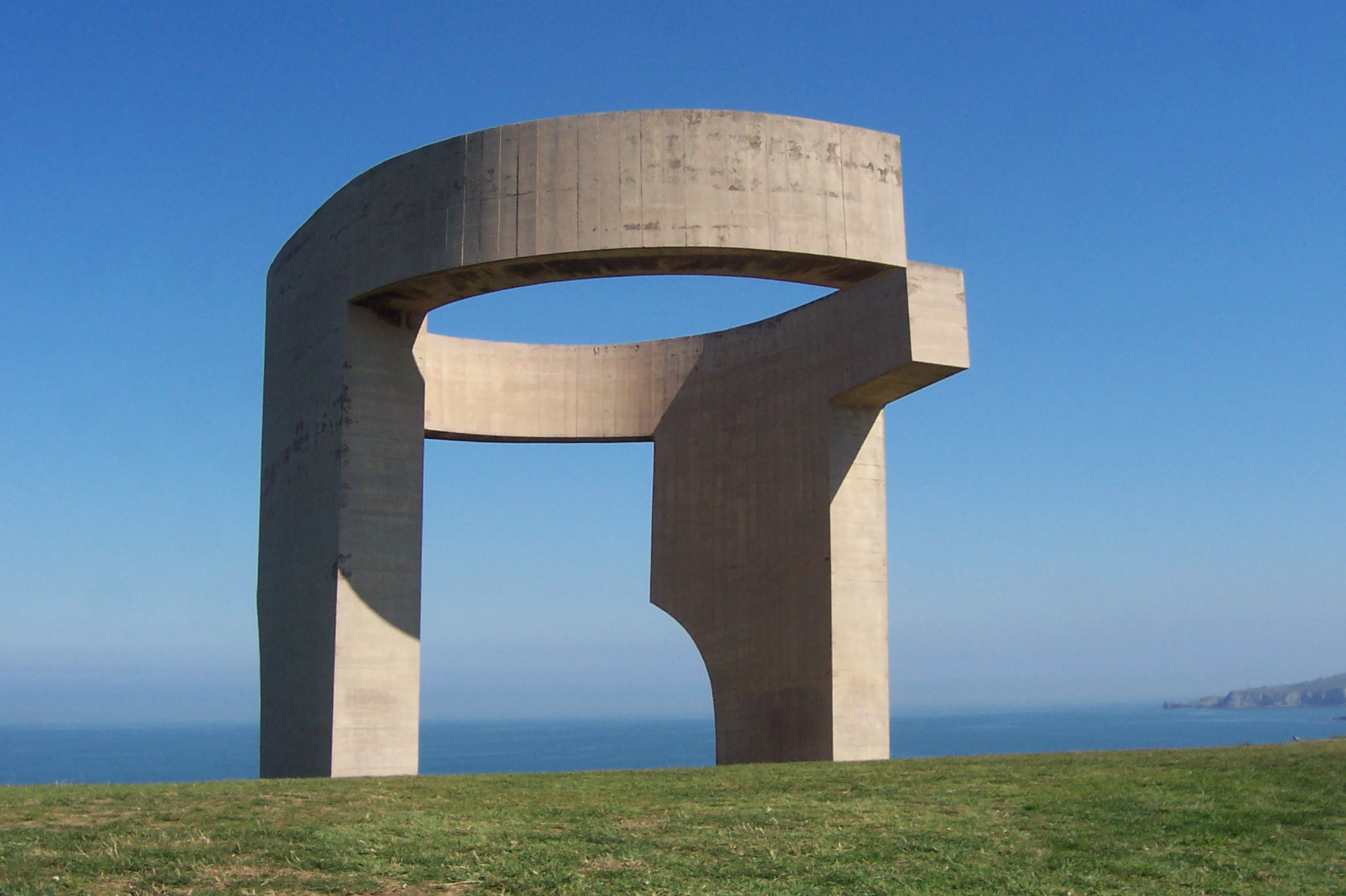 Eulogy to the Horizon, concrete, by Eduardo Chillida in Gijón, Spain.